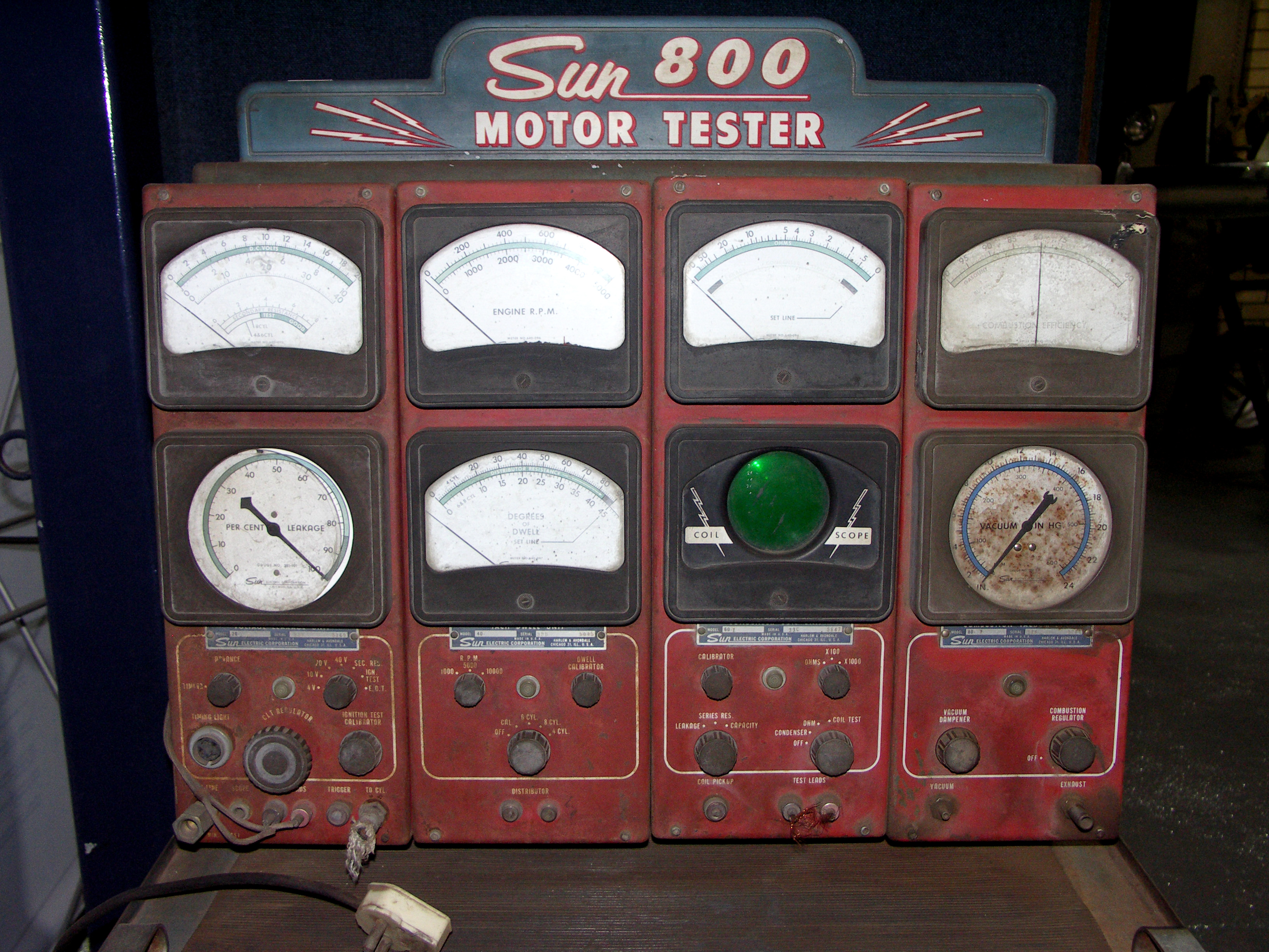 A vintage motor engine tester by the Sun Electric Corporation on Chicago, Ill. Located at the James Hall museum of Transport, Johannesburg, South Africa